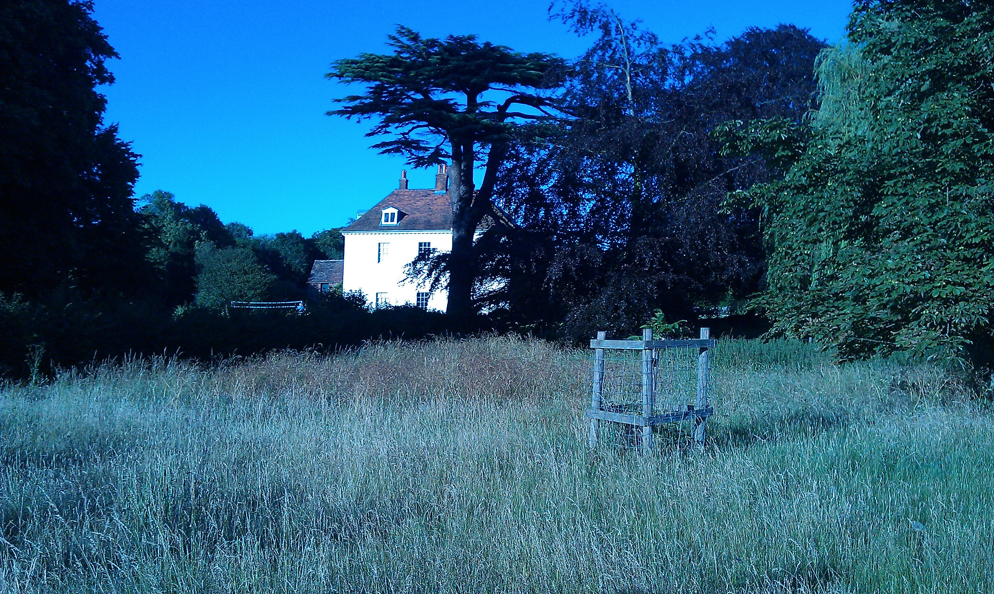 St John's Jerusalem with cedar of lebanon in foreground.